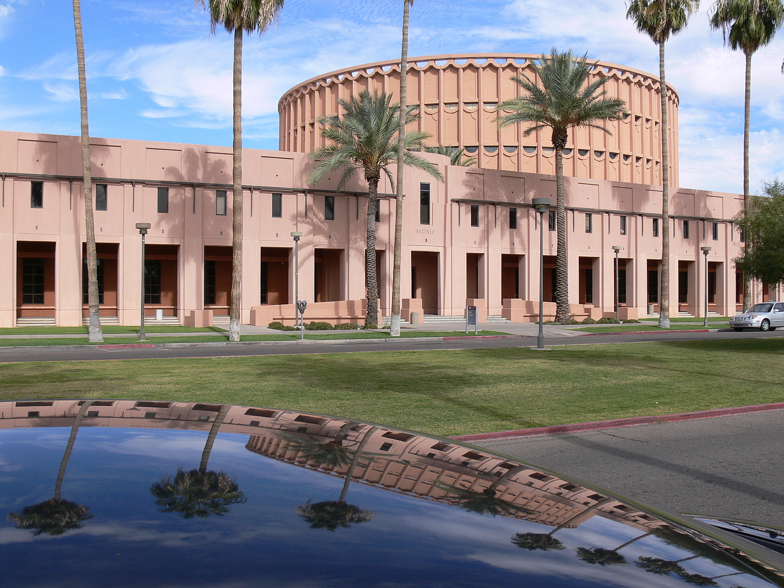 The image was personally taken by me in November 2006. Wars 16:13, 24 November 2006 (UTC)